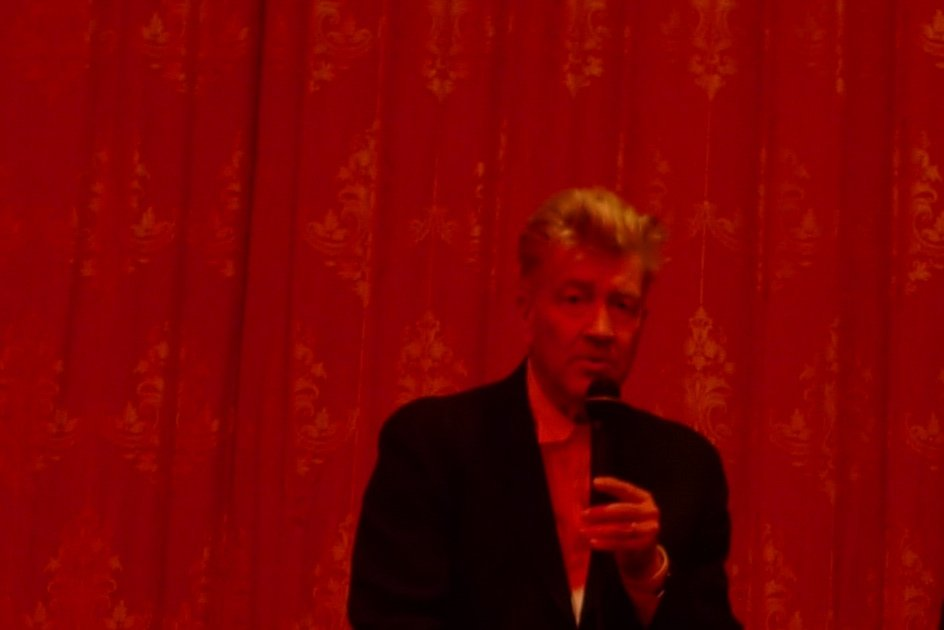 David Lynch at the Russian Tea Room in New York in 2009.